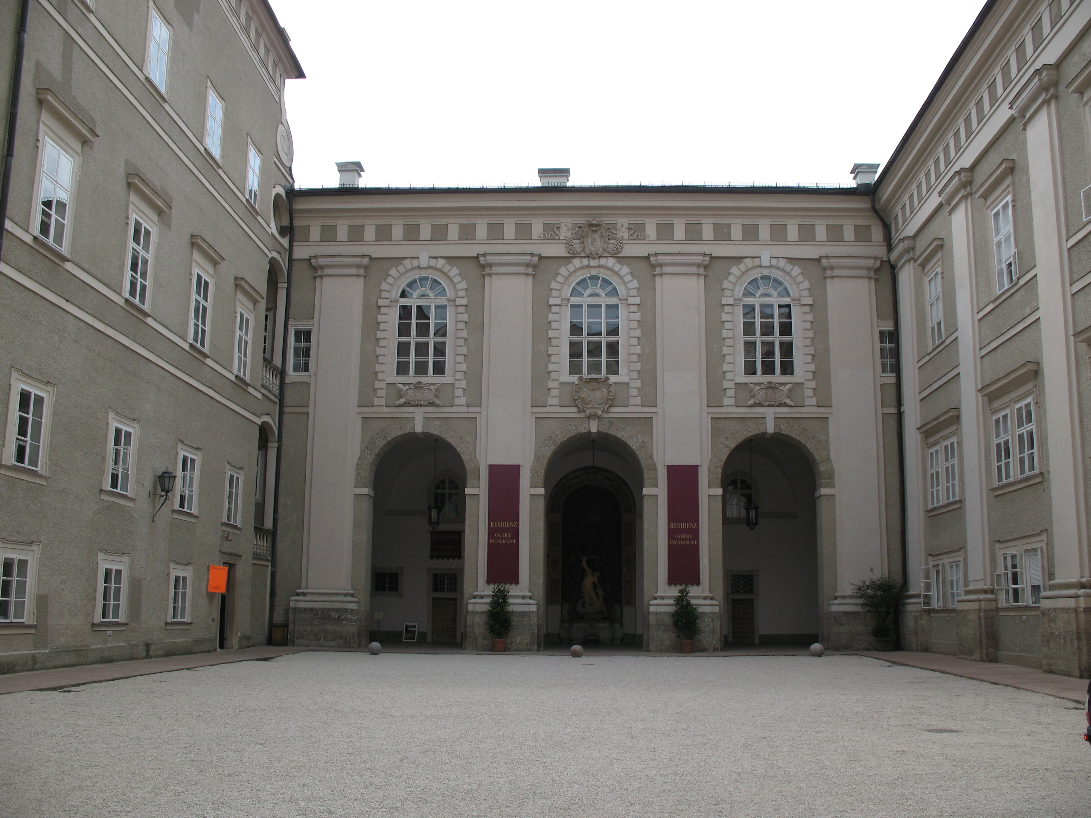 Imperial Residence, Salzburg, Austria